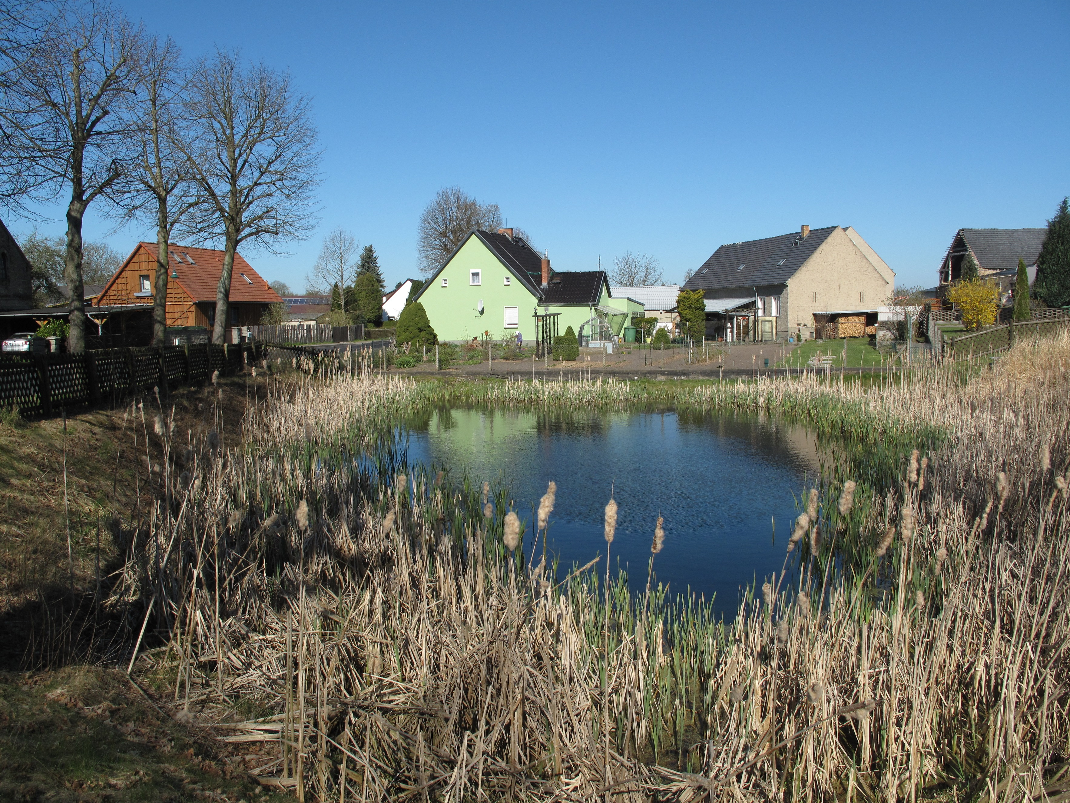 Village pond in Behrensdorf. Behrensdorf is a part of the municipality Rietz-Neuendorf in the District Oder-Spree, Brandenburg, Germany.